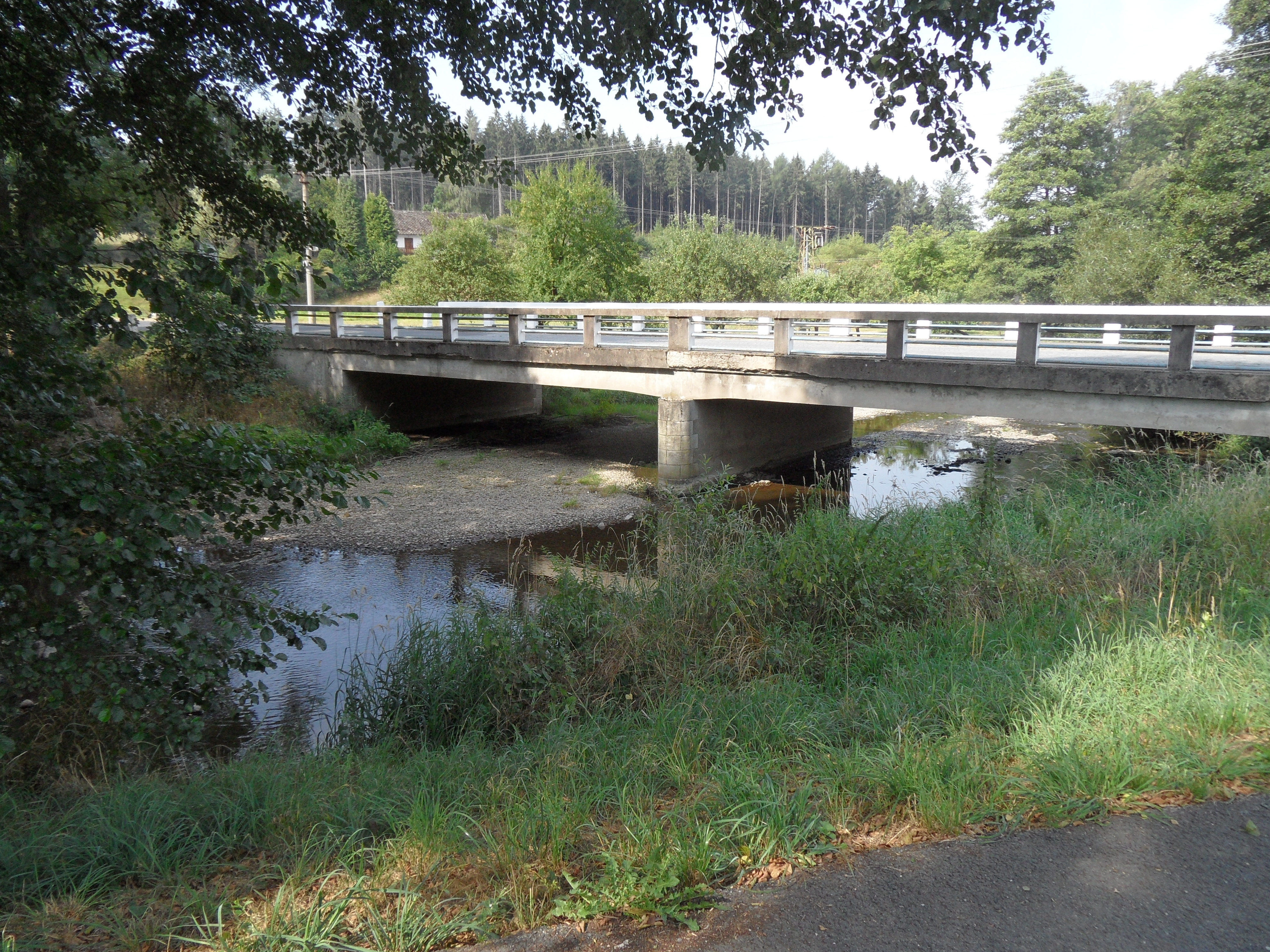 Doubrava River: kilometr 50,5. A. Jeřišno, Bridge from East. Havlíčkův Brod Disctrict, the Czech Republic.